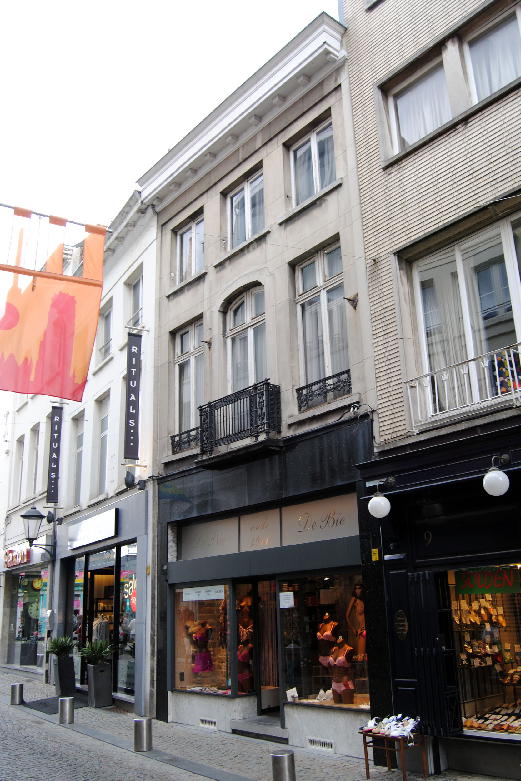 Bruul 7